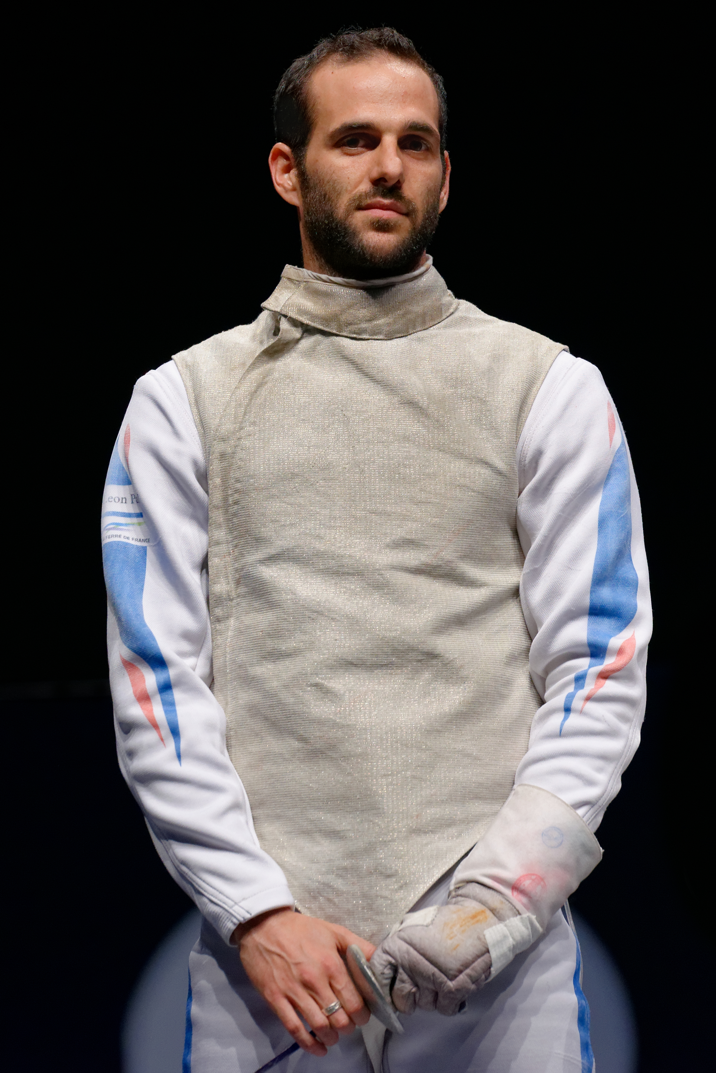 Erwann Le Péchoux is introduced to the crowd during the opening of the 2014 Master de Fleuret Melun Val de Seine.